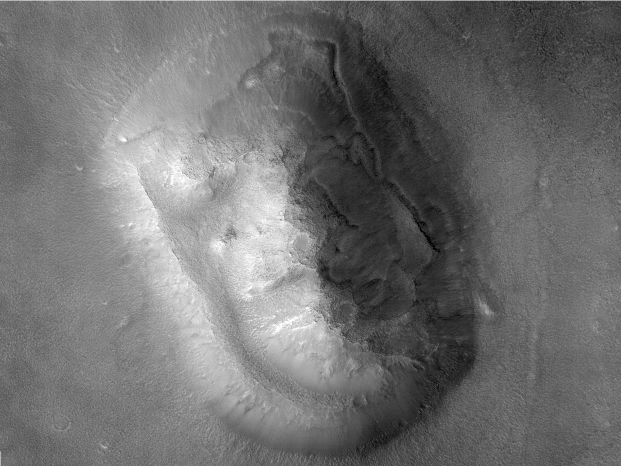 Popular Landform in Cydonia Mensae (PSP_003234_2210), also known as the "face" on Mars at 0.2m/pixel, captured by the HiRISE telescope camera on Mars Reconnaissance Orbiter. The image is slightly rotated from the original 1976 image. This version is not map projected, has been cropped, and the curves were adjusted slightly to bring out detail in the shadowed areas. The original image can be found at